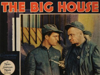 Lobby card for the American drama film The Big House (1930).